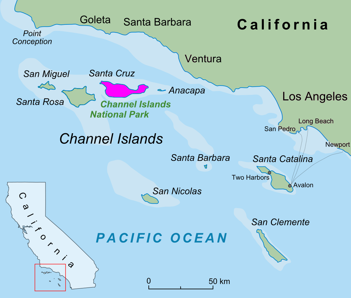 Derivative work from Commons file File:Californian_Channel_Islands_map_en.png with Santa Cruz Island recoloured to show the range of Island Scrub Jay. (Note - I tried several times to upload using derivative FX, but kept getting loss of session messages even after browser and system restarts)